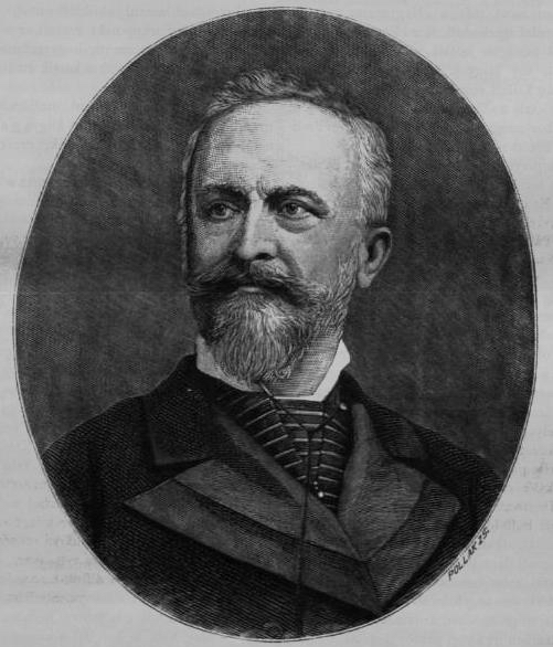 Portrait of János Pompéry